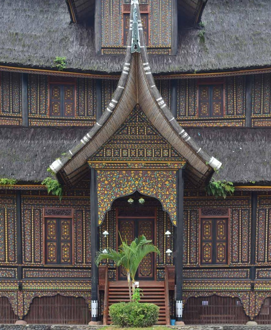 Pagaruyung Palace, West Sumatra